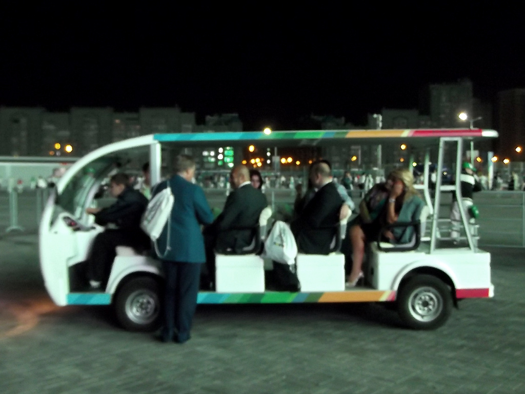 Universiade Village in Kazan, electric open microbus during 2013 Summer Universiade